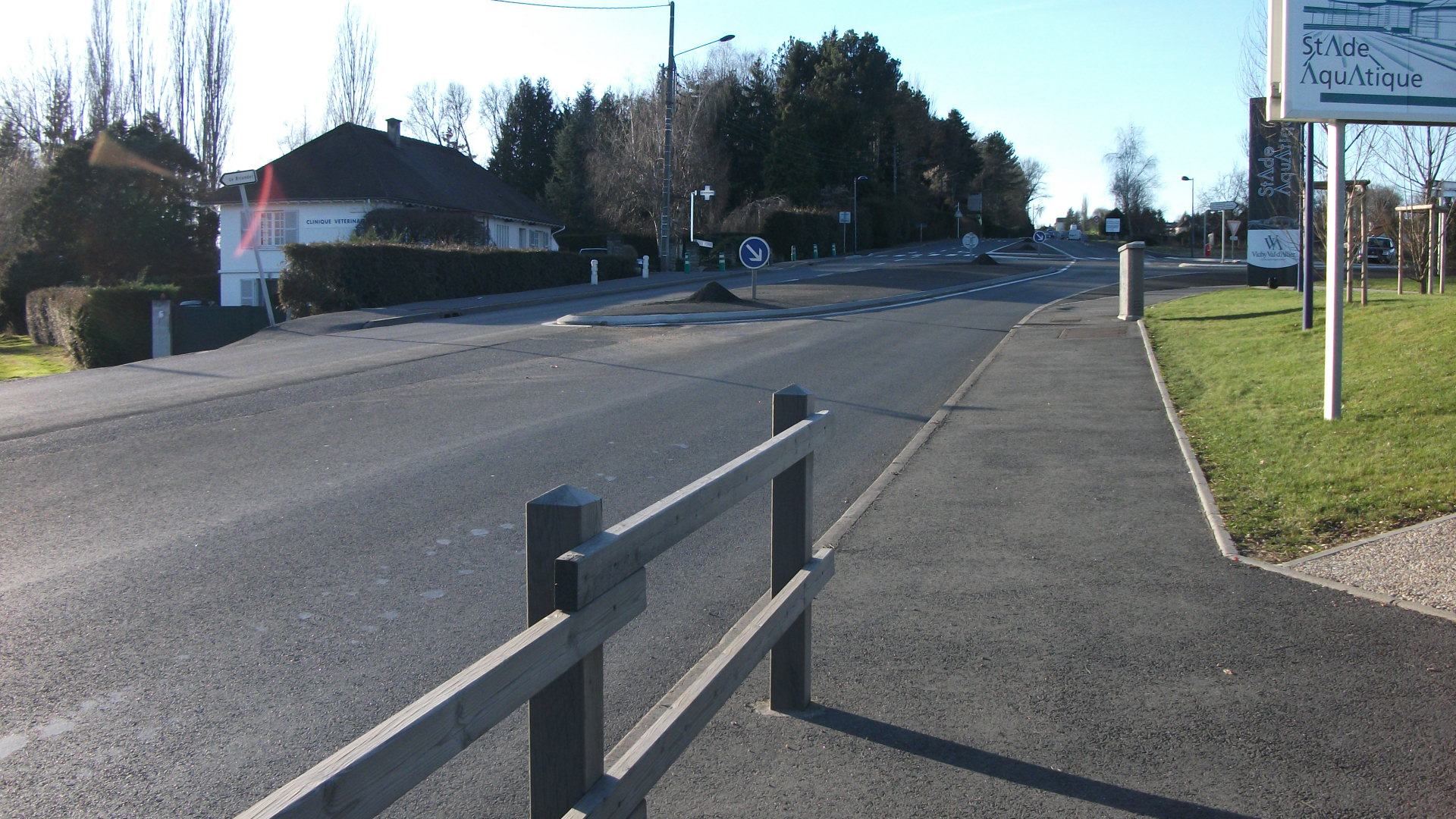 Departmental road 2209, former national road 209, in Bellerive-sur-Allier, towards Gannat, near Stade Aquatique.